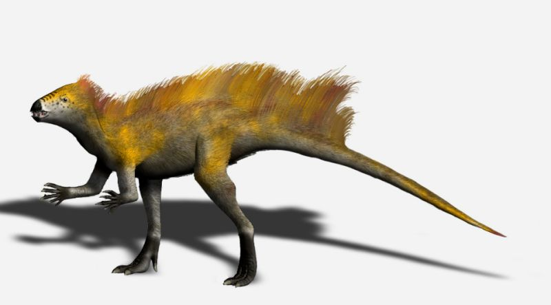 Tianyulong confuciusi, from the Early Cretaceous of China. Digital.